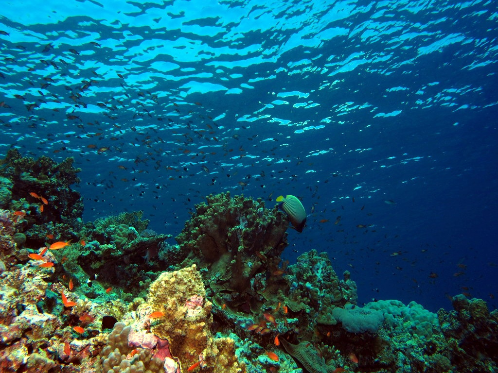 Corrals at Elphinstone Reef, Red Sea, Egypt